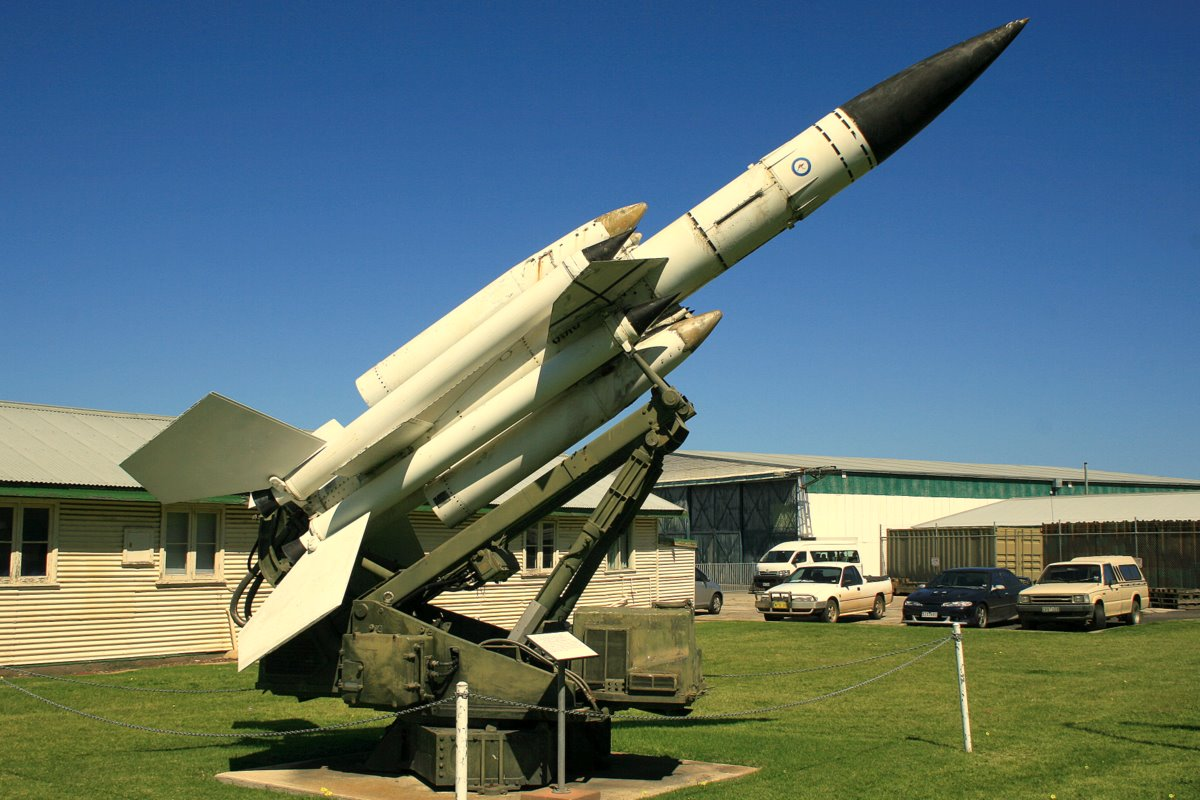 This Bristol Bloodhound on display at the RAAF Museum was on strength with No. 30 Squadron RAAF, the only Royal Australian Air Force unit to be equipped with missiles.